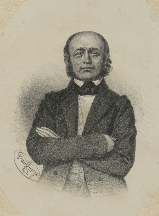 Michael Yechiel Sachs